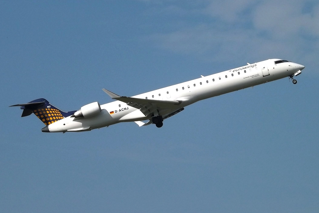 D-ACNJ Canadair CRJ-900 Eurowings